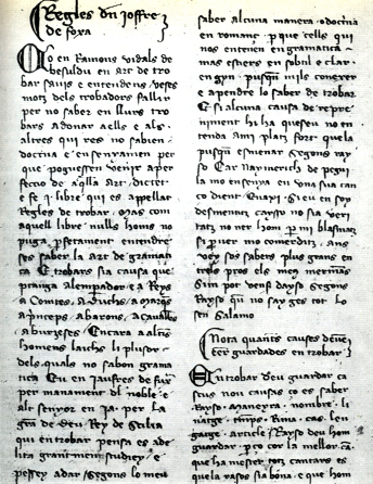 Regles de trobar of Jaufre de Foixa, folio 12r of MS 239 in the Biblioteca de Catalunya.